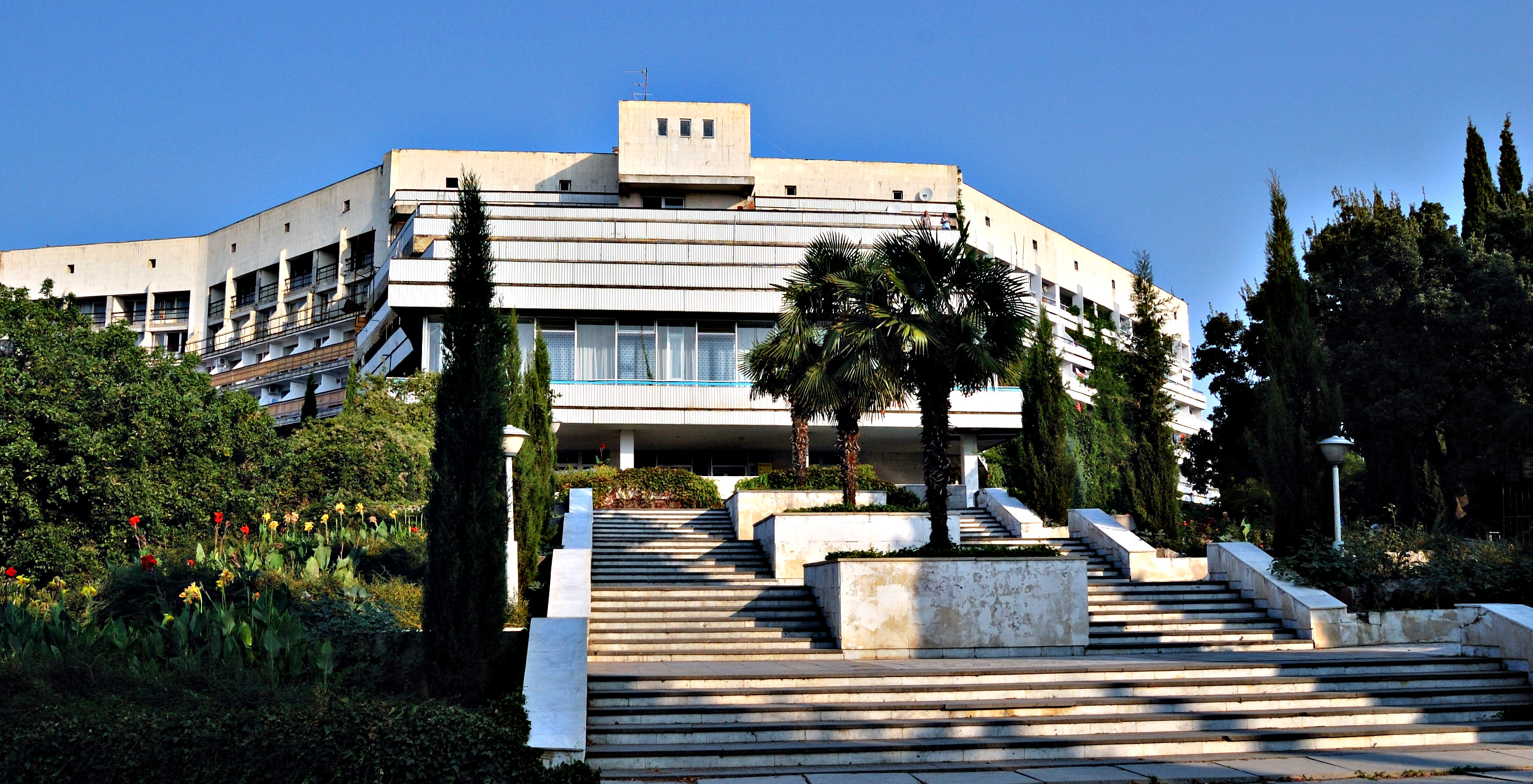 Kanaka. Crimea. Ukrain.